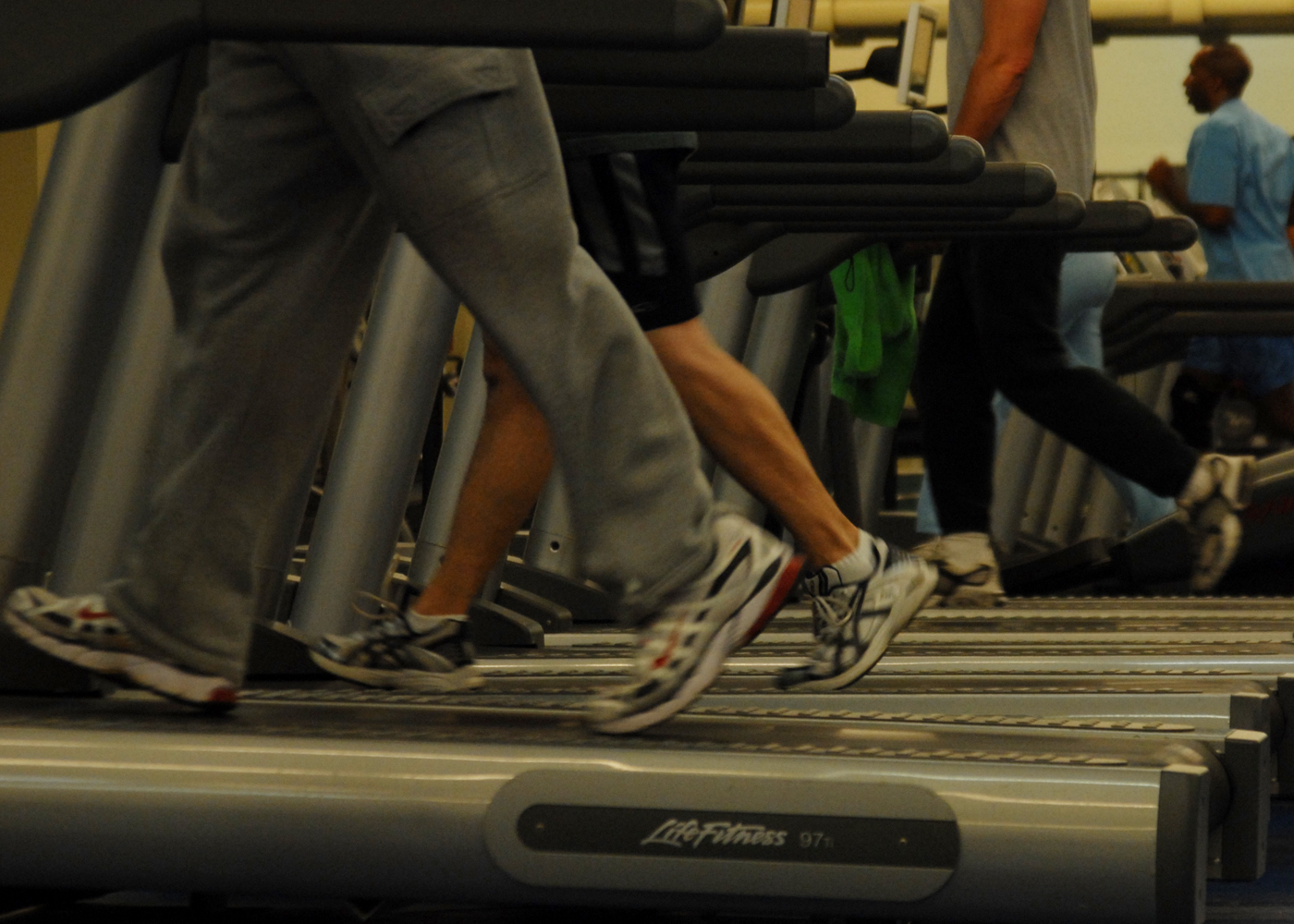 KUNSAN AIR BASE, South Korea— Airmen from the 8th Fighter Wing use cardio equipment at the fitness center. Cardiovascular exercise is one way to stay fit and maintain weight according to health and physical fitness experts.